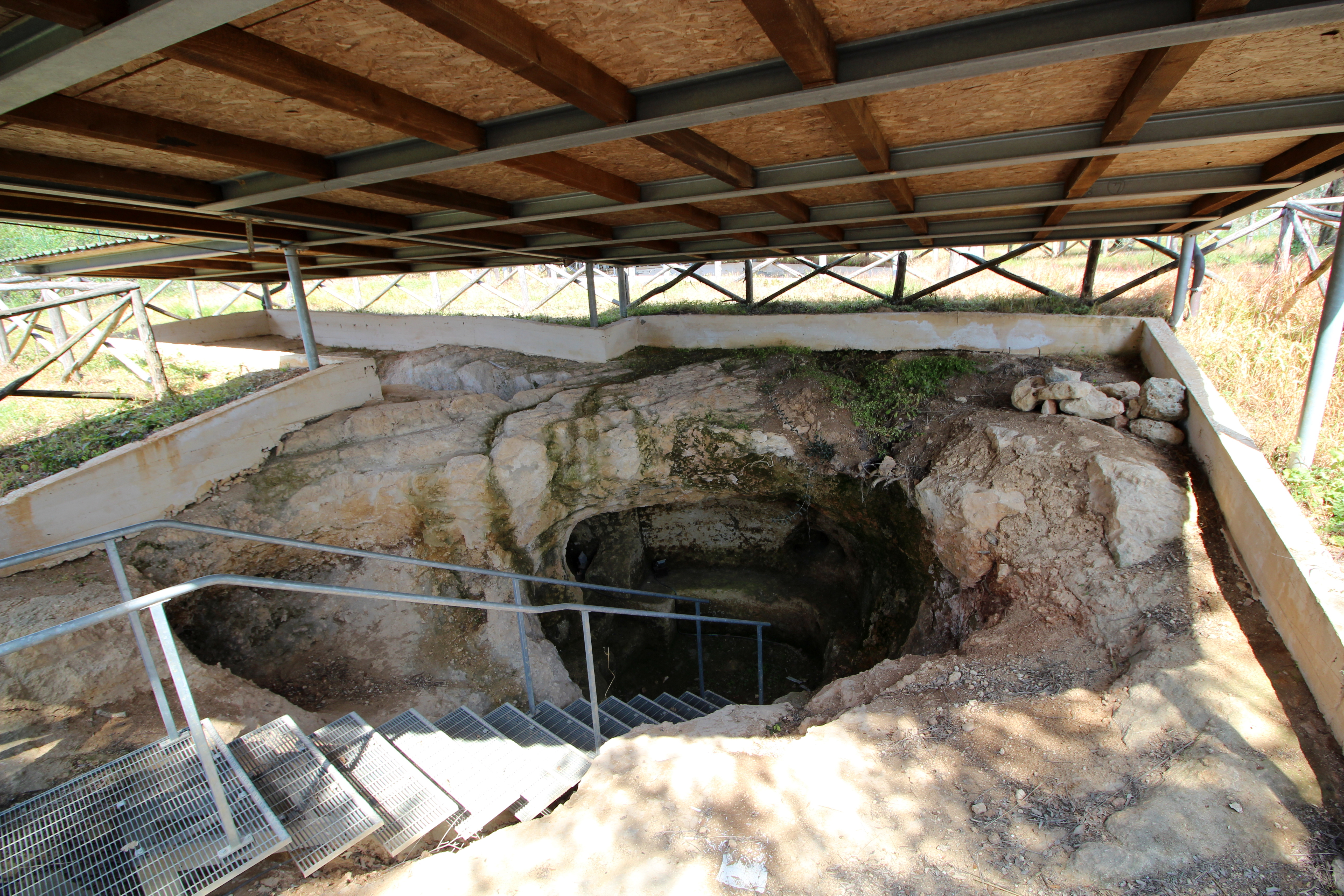 Etruscan Necropolis near Dometaia, village in the territory of Colle di Val d'Elsa, Province of Siena, Tuscany, Italy